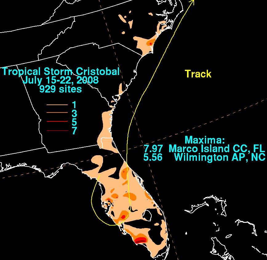 Storm total rainfall map of Tropical Storm Cristobal during July 2008.